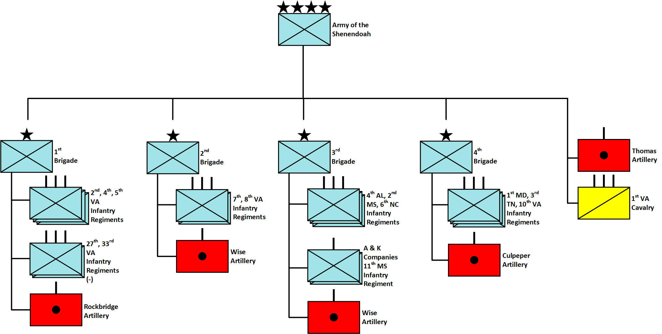 Organization of Confederate Army of the Shenandoah during the First Battle of Bull Run